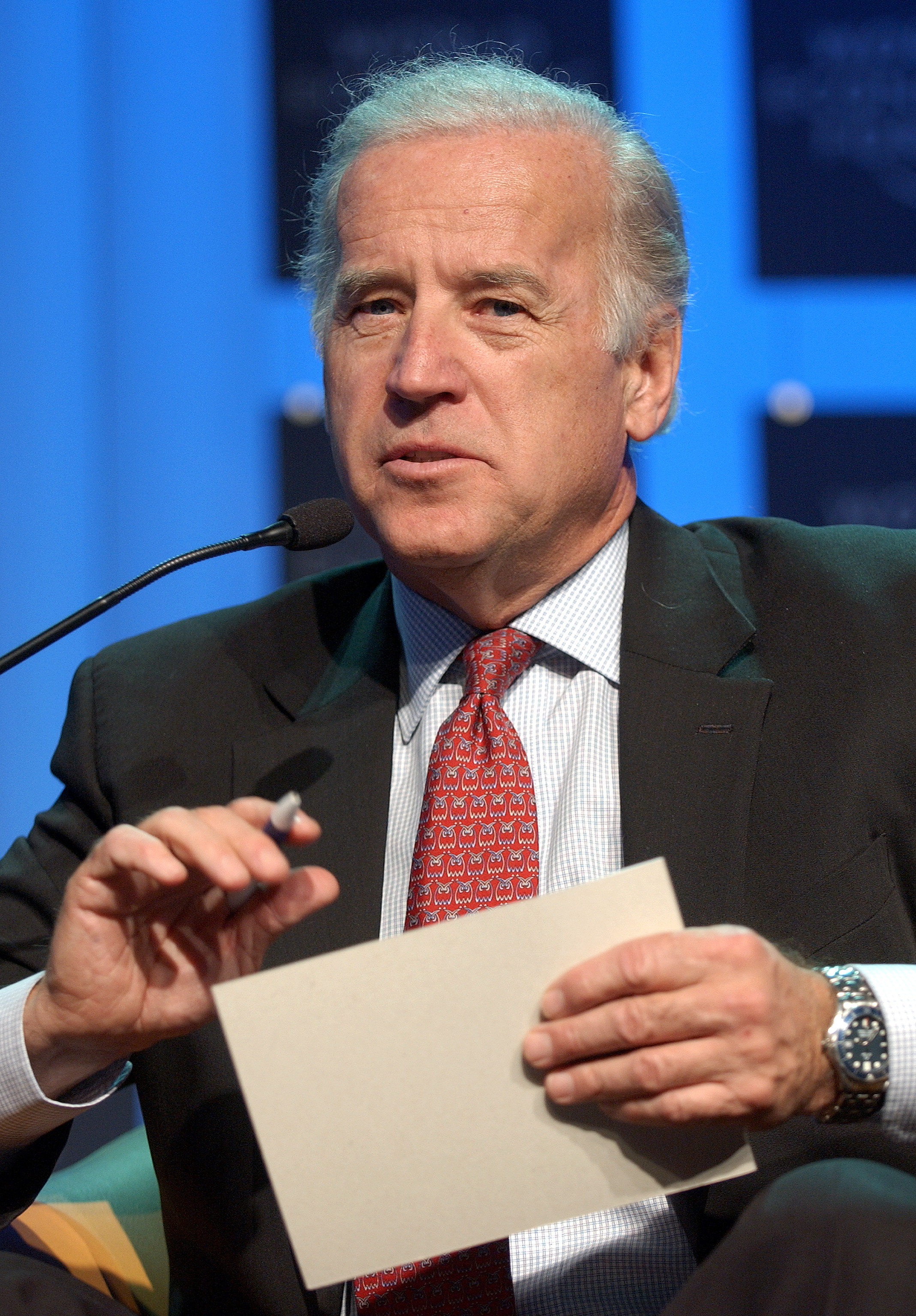 DAVOS/SWITZERLAND, 28JAN05 - Joseph R. Biden, Senator from Delaware (Democrat), USA, captured during the session 'A View from the Hill on US Foreign Policy in Bush II' at the Annual Meeting 2005 of the World Economic Forum in Davos, Switzerland, January 28, 2005. Copyright World Economic Forum ( swiss-image.ch / Photo by Remy Steinegger